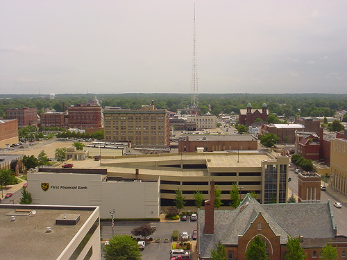 Downtown Terre Haute, taken from the roof of the Sycamore Building in downtown Terre Haute in July '06. --Simon Dodd 00:19, 28 July 2006 (UTC)